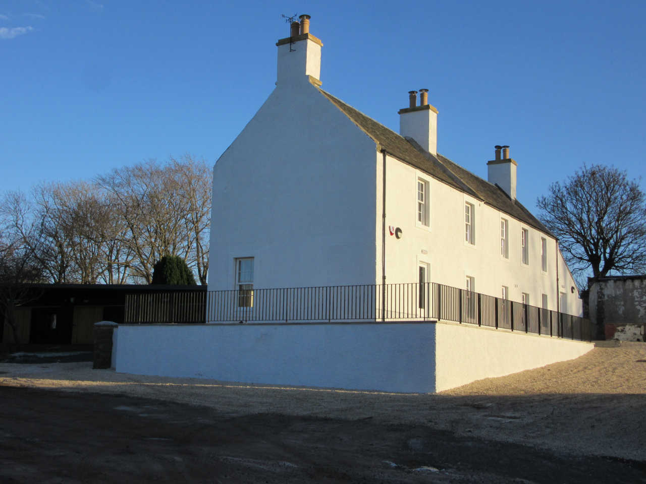 Bridgend Farmhouse from the Road